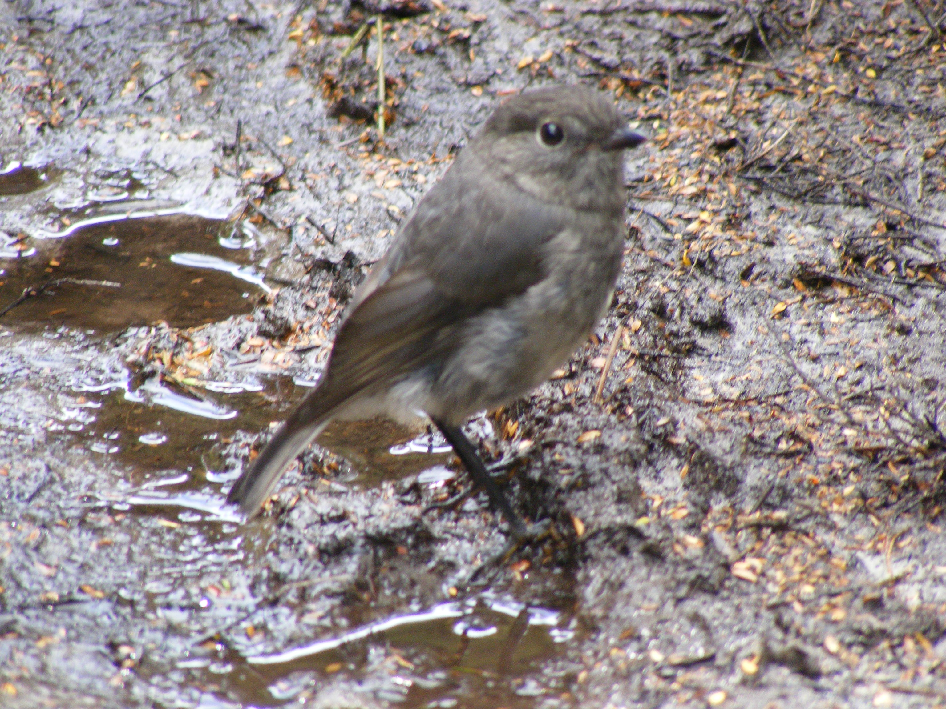 New Zealand Robin taken on Stewart Island